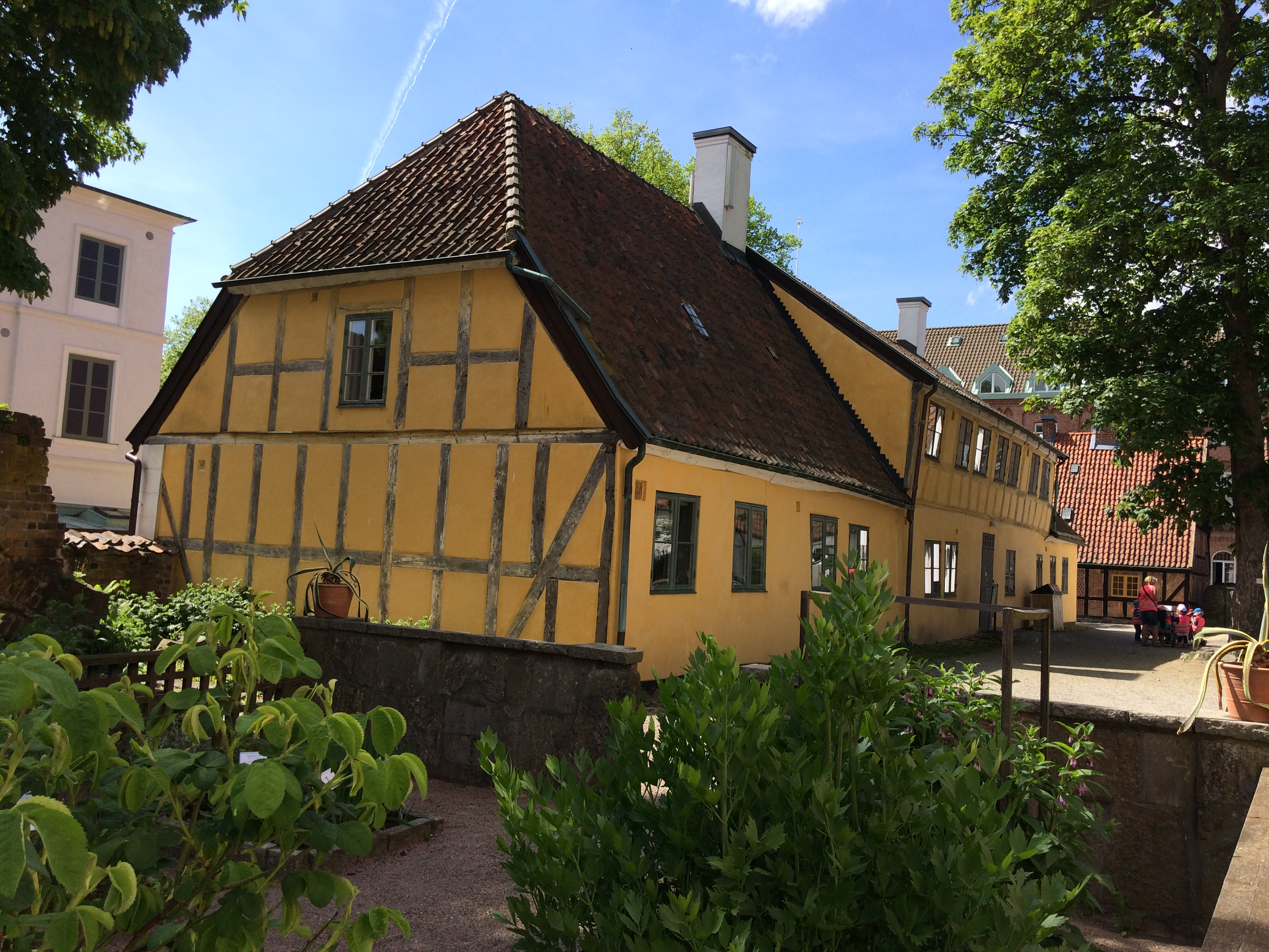 Lindforska huset på Kulturen i Lund, i maj 2017. Bottenvåningen används sedan 1997 som utställningslokal för Universitetsmuseet i Lund.